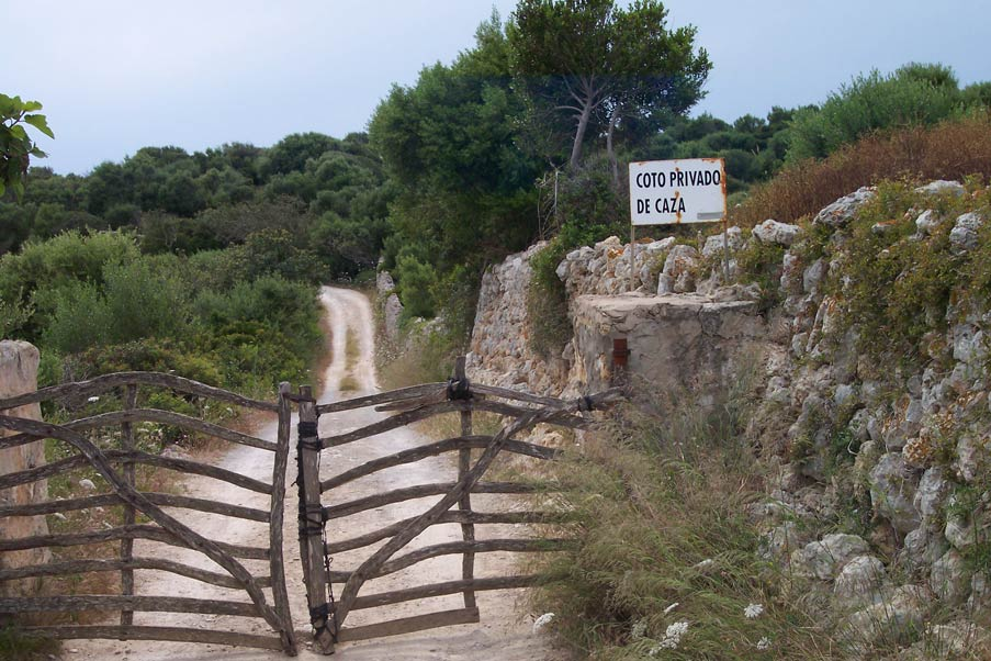 A small way on Minorca.